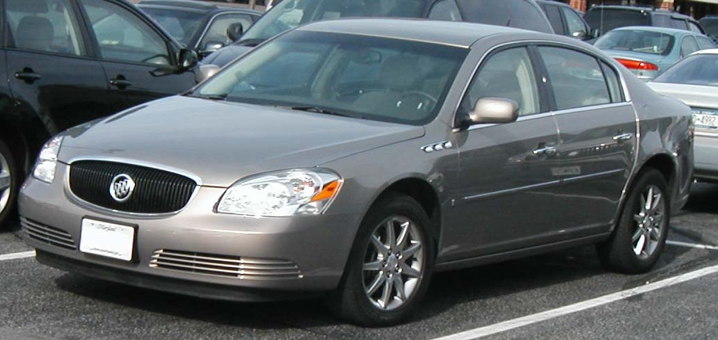 2006-2007 Buick Lucerne CXL V6 photographed in USA.